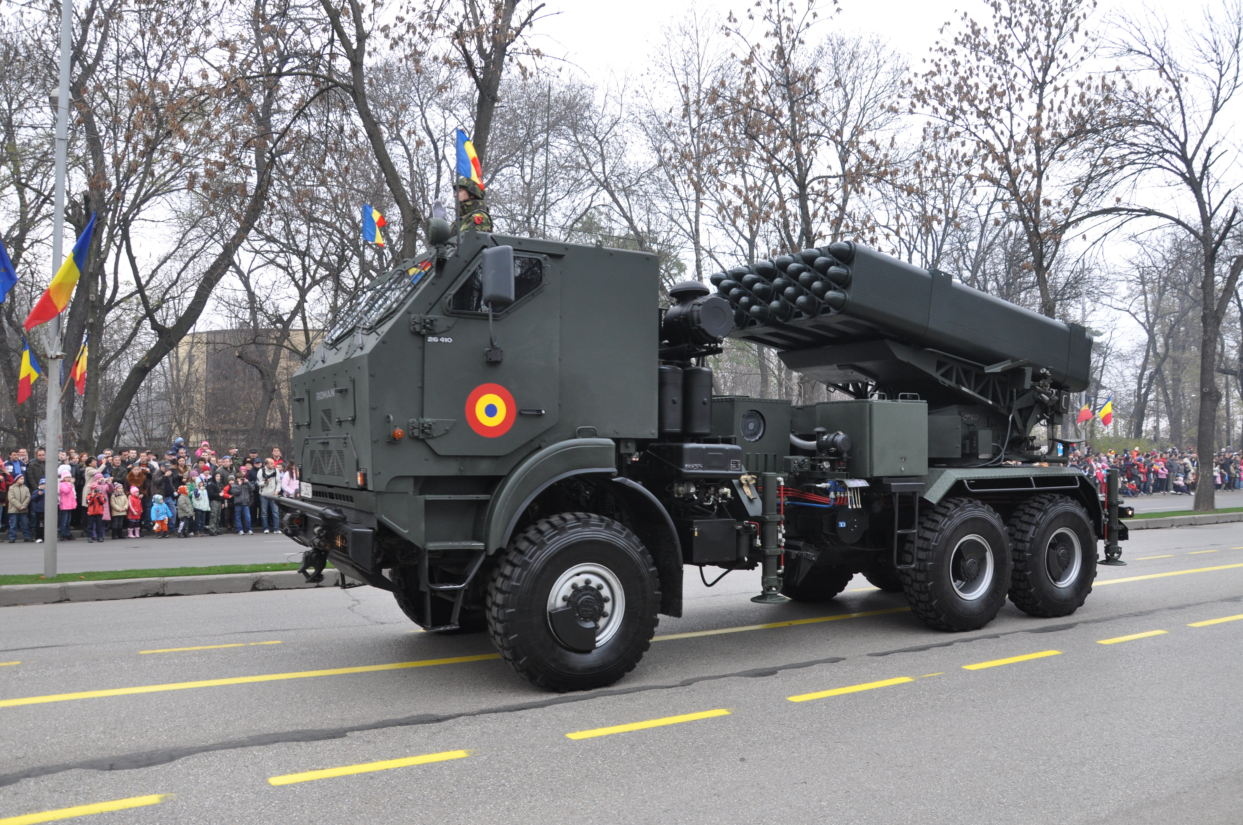 LAROM MLRS on DAC 26410 chassis at National Day Parade, 2009